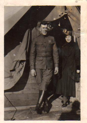 Lt. Edward H. Brooks and his new bride, Beatrice (Leavitt) Brooks, at military camp in Georgia as he prepares to ship out to Europe for WWI.